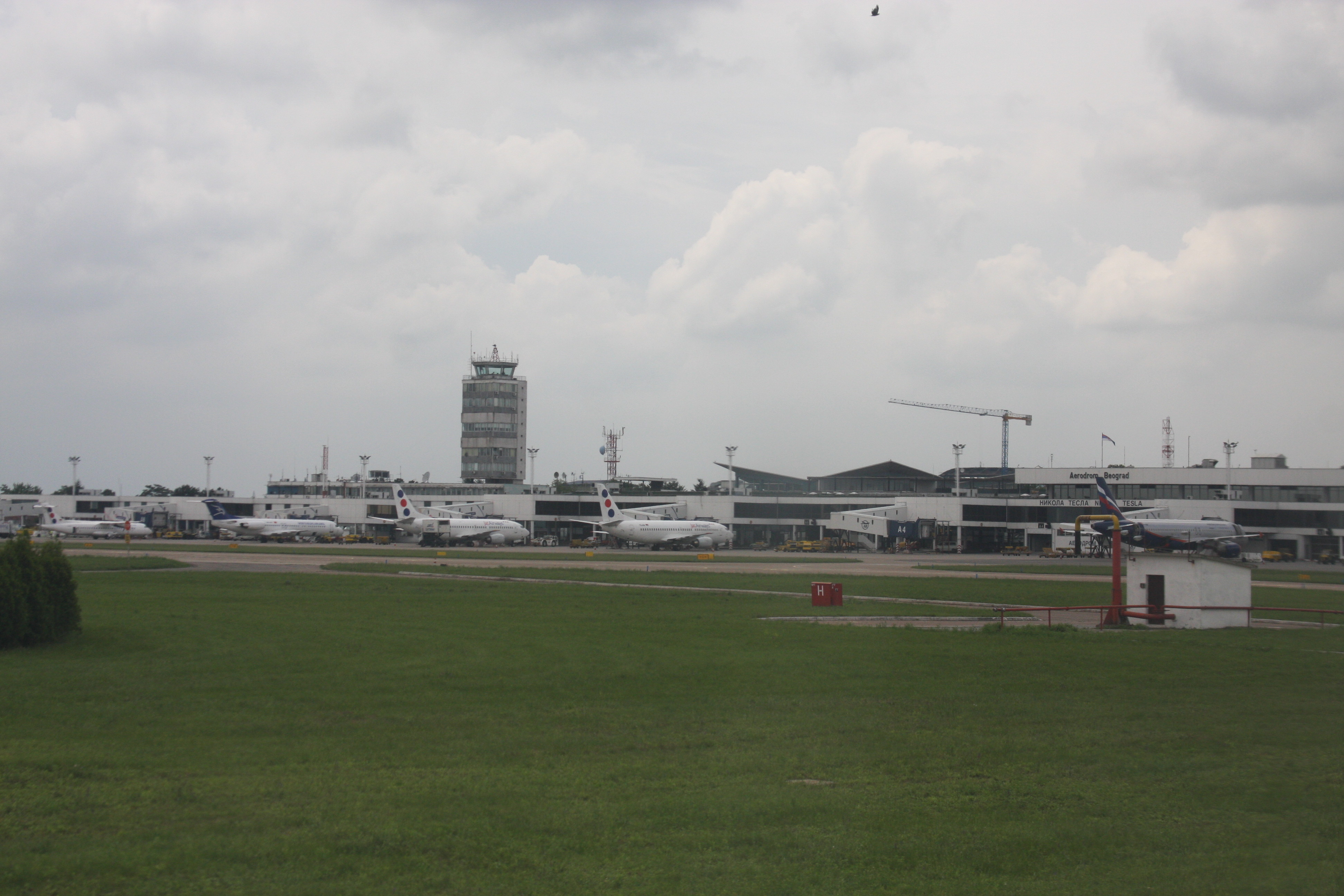 Beograd Nikola Tesla Airport, Belgrade, Serbia.